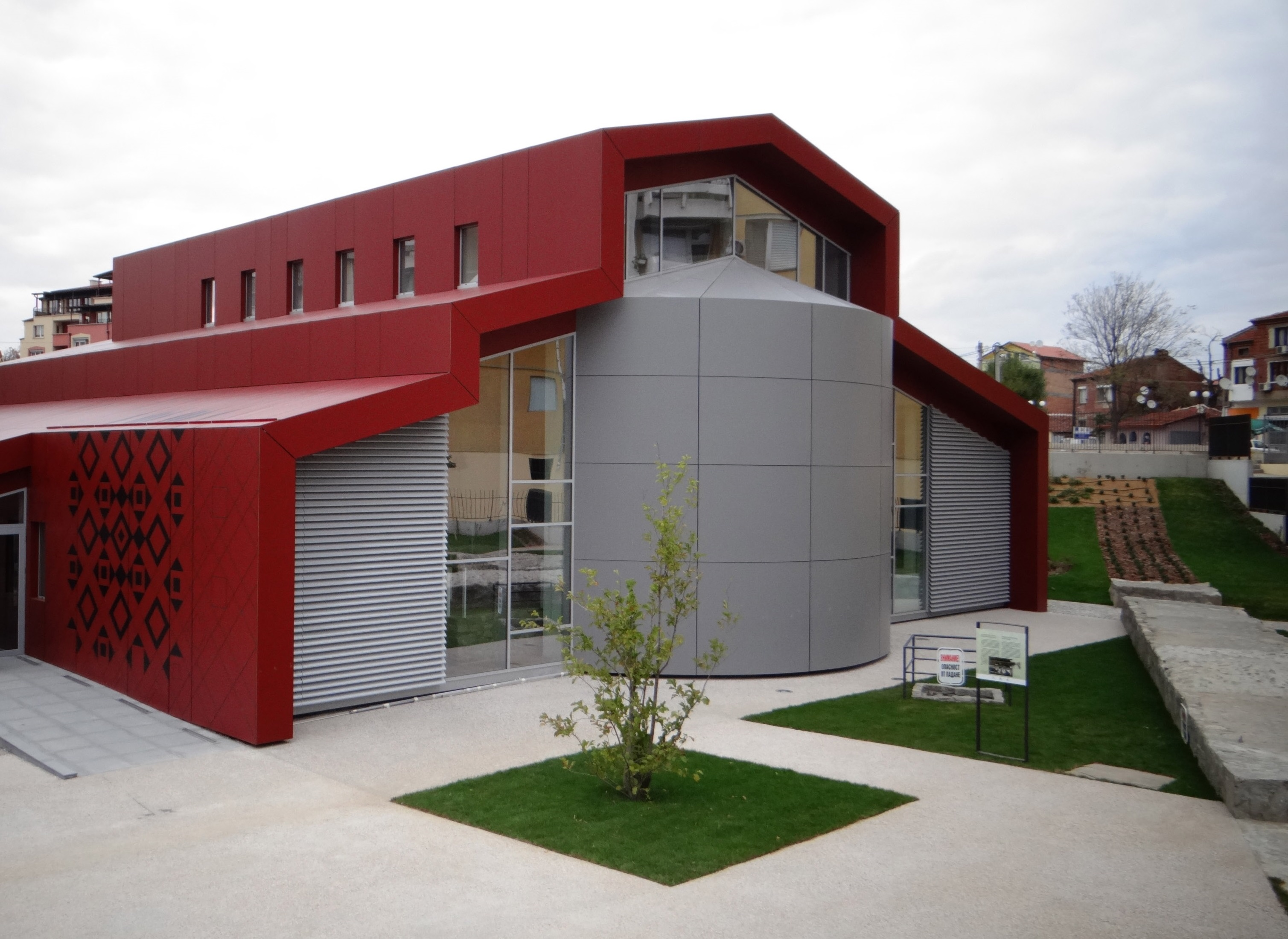 The small basilica building in Plovdiv